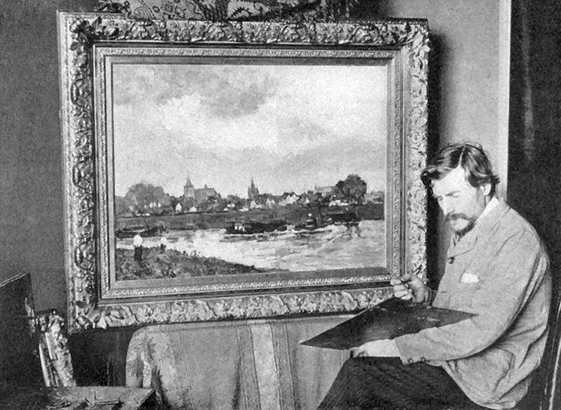 Charles Dankmeijer in zijn atelier